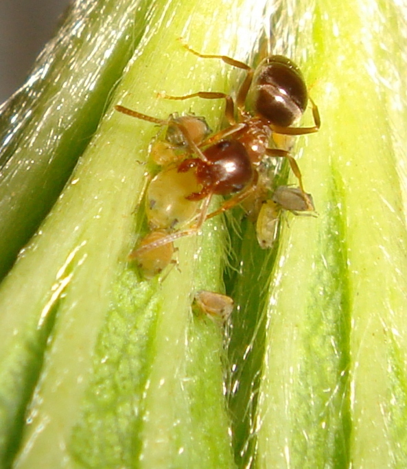 Ant with Aphid (Aphidoidea), Ameise mit Blattläusen